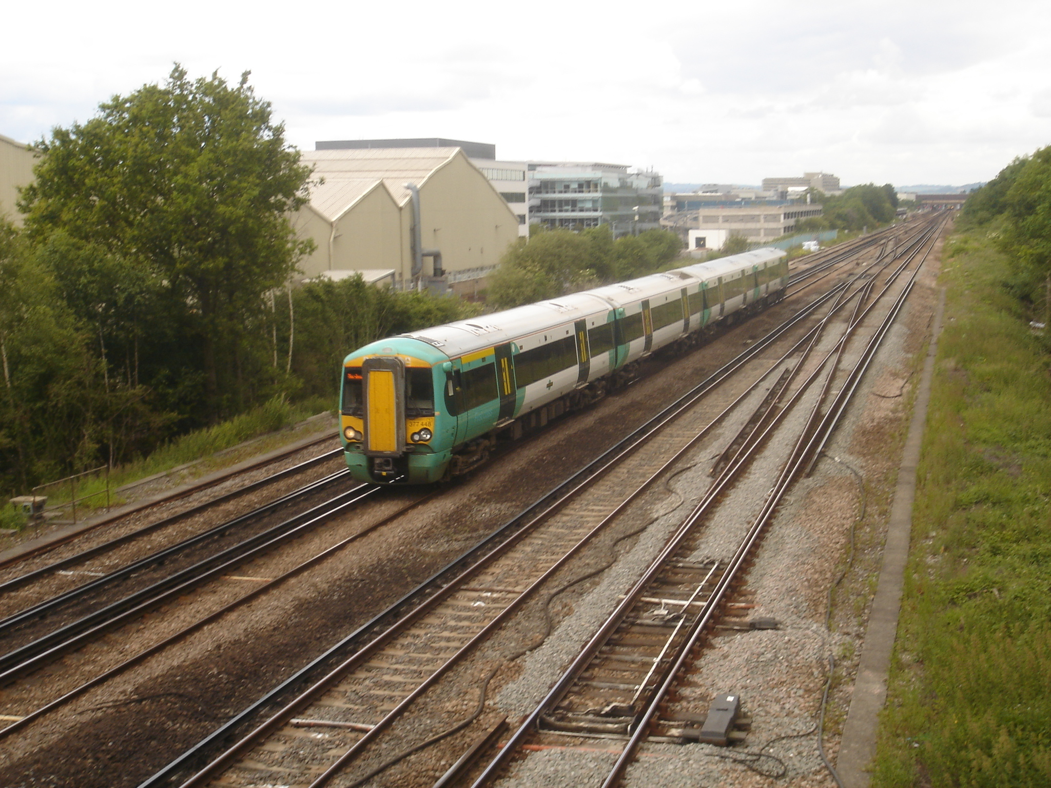 British Rail Class 377 EMU no. 377448, operated by Southern, passes the site of the former Tinsley Green railway station (later Gatwick Airport's first station), which closed in 1958. Taken from the Radford Road overbridge, Tinsley Green, Crawley, West Sussex. Looking north.